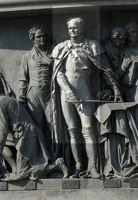 Alexander I of Russia on the Monument «Millennium of Russia» in Veliky Novgorod